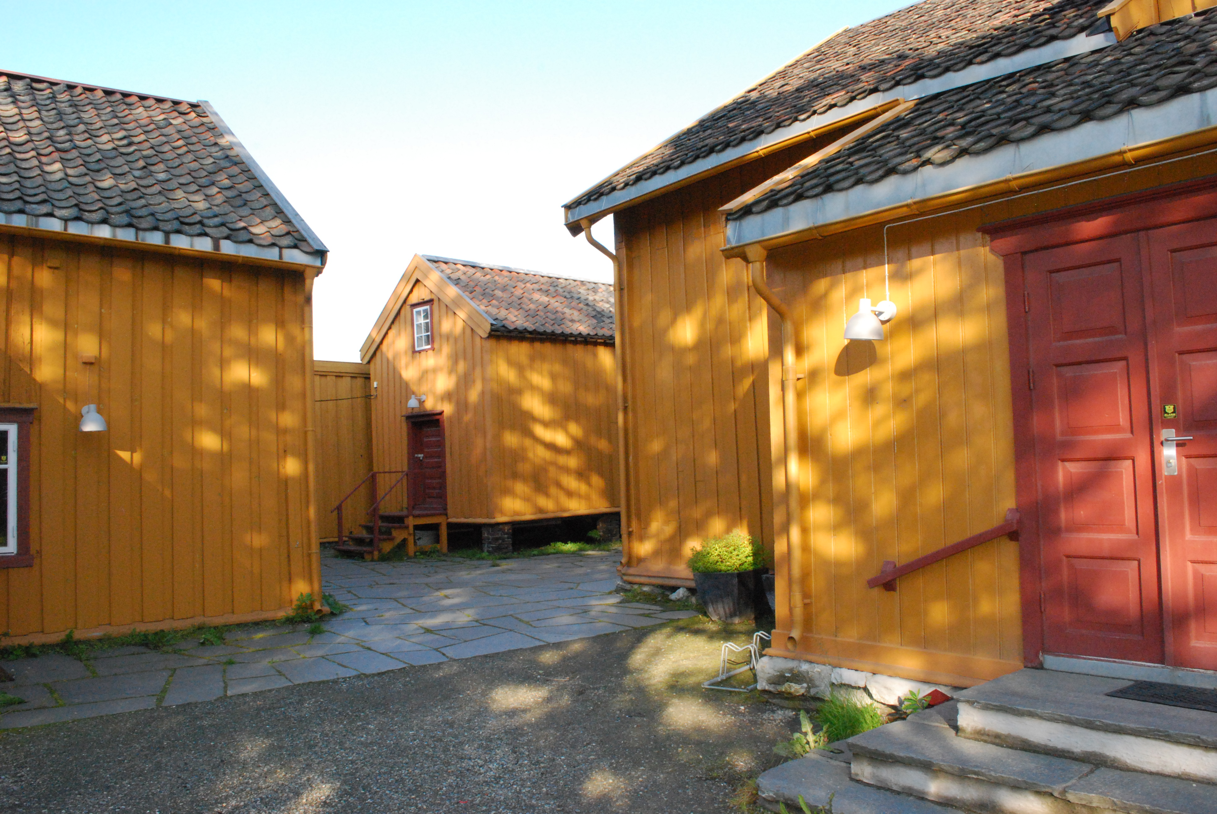 Buildings on Skansen complex, the oldest buildings in Tromsø